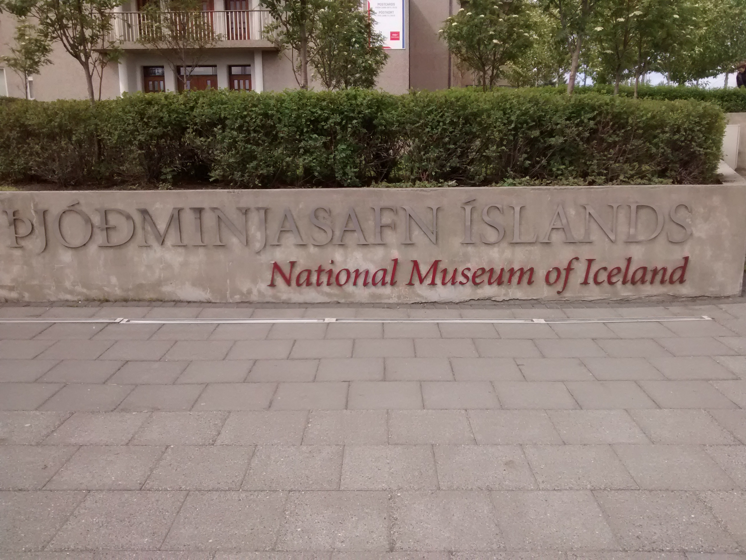 The sign in front of the National Museum of Iceland in Reykjavik.